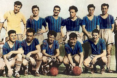 The 1955 Colegiales team, that won its first championship that year